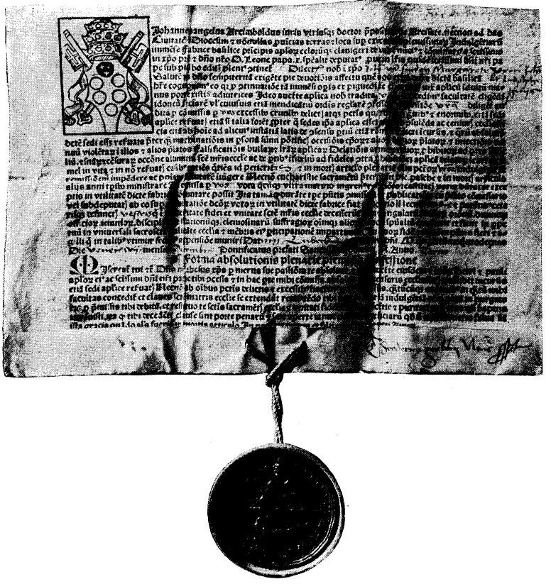 Letter of indulgence issued by Johannes Angelus Arcimboldus in Sweden in the 1500s. Picture from Nordisk familjebok (1904).